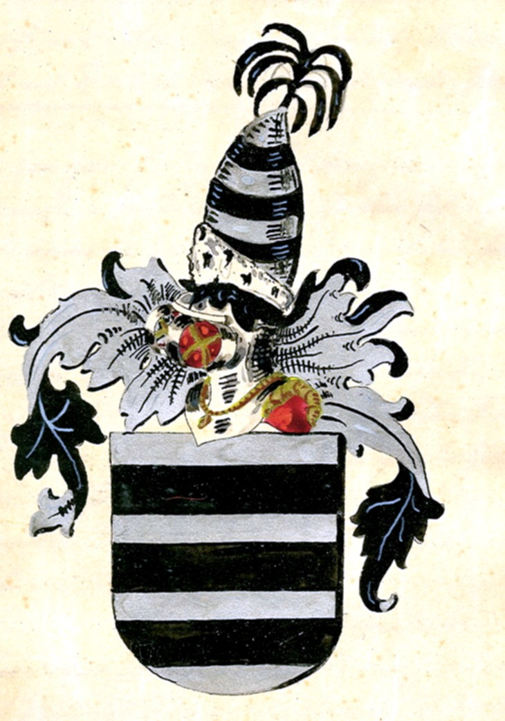 Coats of arms Botsch of Zwingenberg family - Coloured drawing ( around 1890 ) by Ernst Count Sprinzenstein ( Family archives Sprinzenstein )